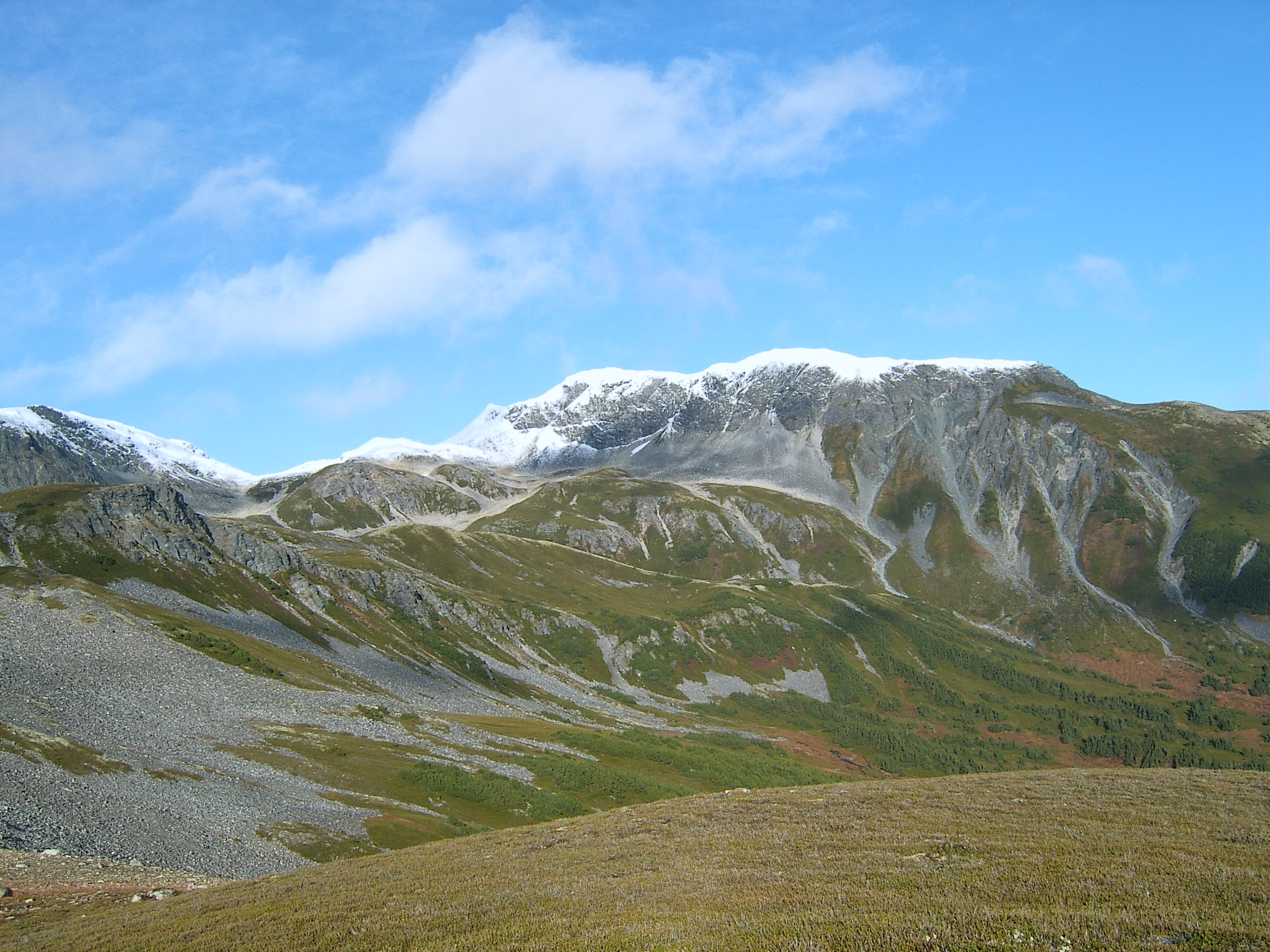 A picture I took of Mount Tukgahgo, Alaska